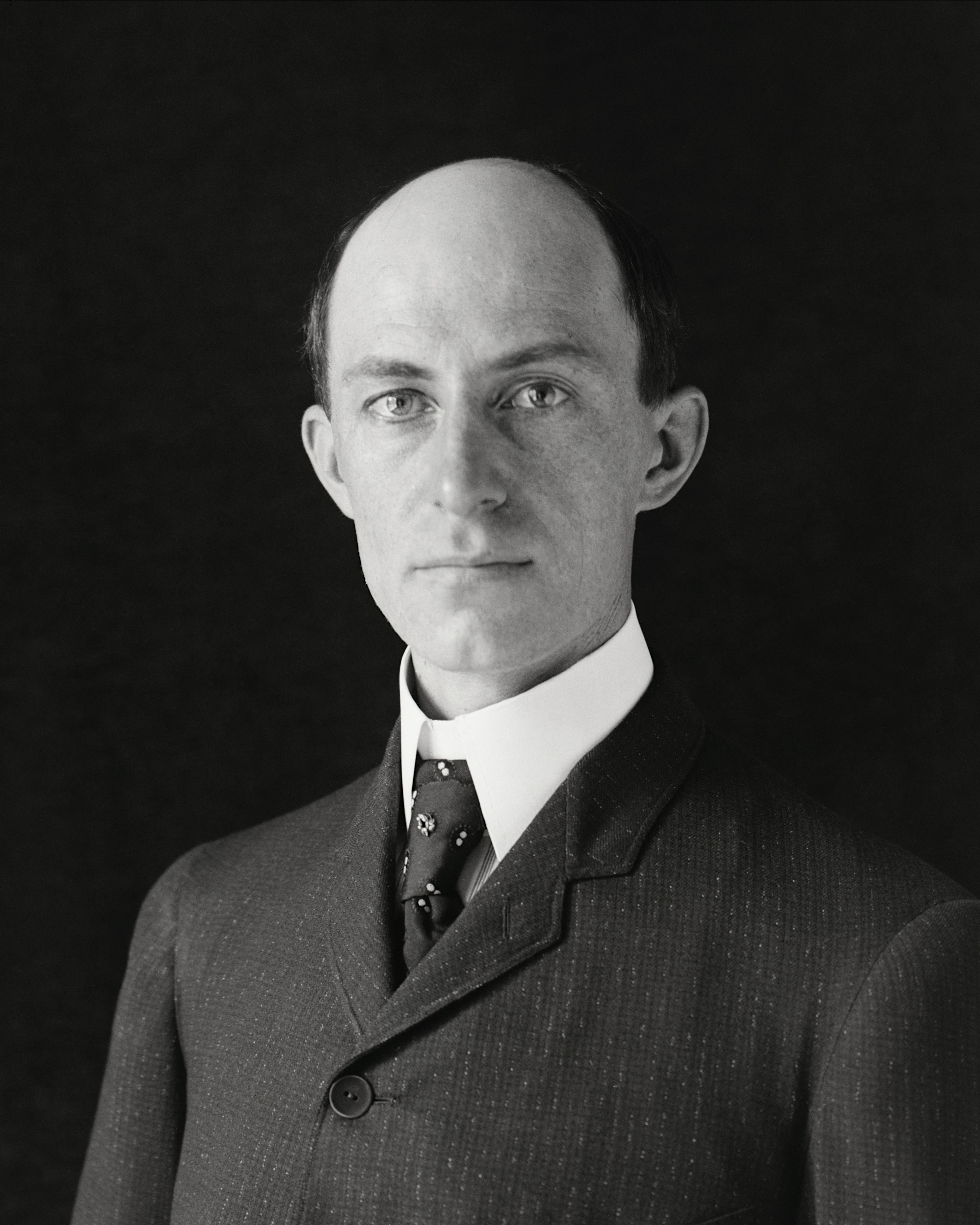 Wilbur Wright, age 38, head and shoulders.